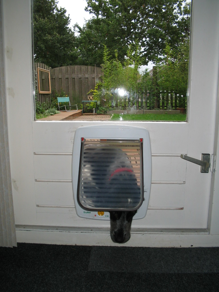 A door with a small door for a dog